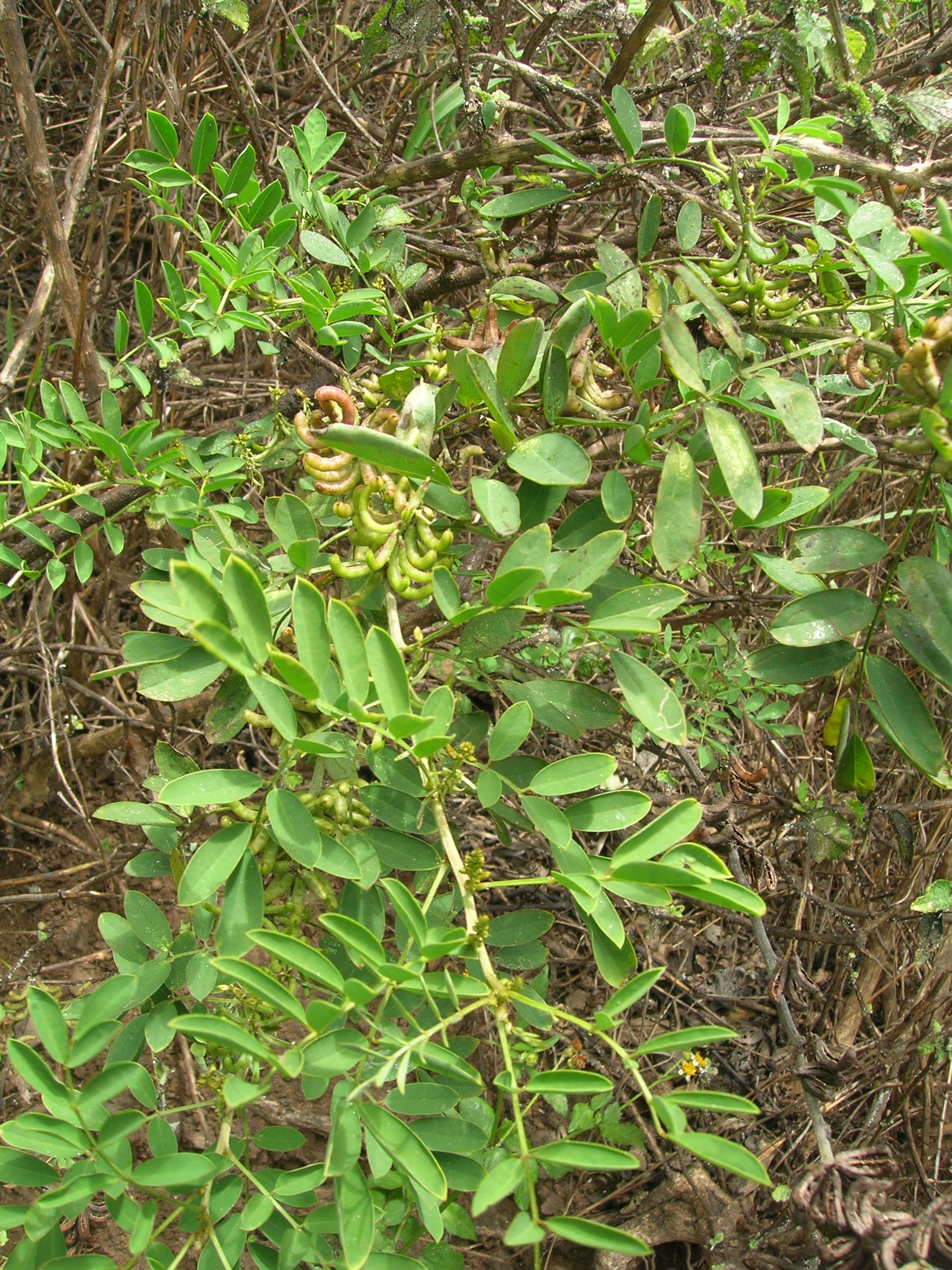 Indigofera suffruticosa (habit). Location: Oahu, Mokolii